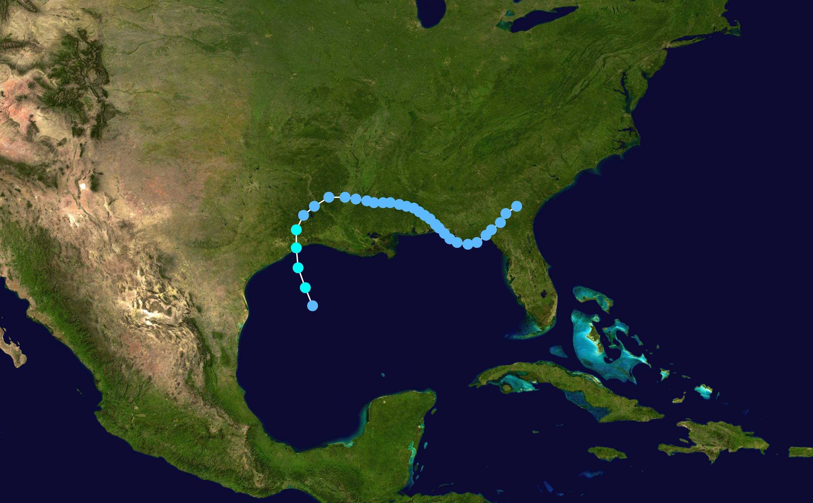 1987 Atlantic tropical storm 1 track. Uses the color scheme from the Saffir-Simpson Hurricane Scale.